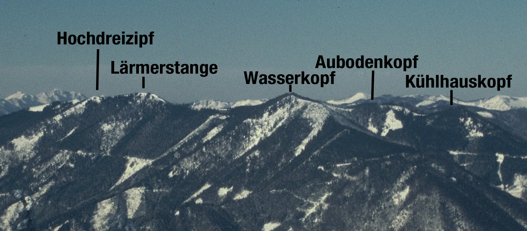 Hegerberg with the names of the summits